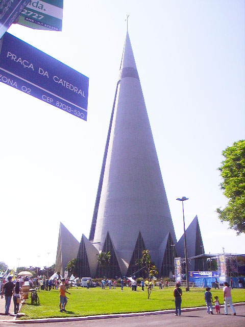 Catedral Basílica Menor Nossa Senhora da Glória (Catedral de Maringá) in October 14, 2006, during a visit of Brazilian presidency candidate Geraldo Alckmin